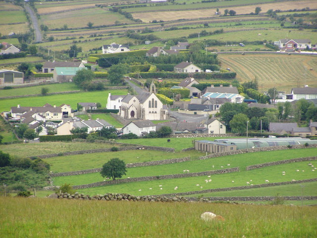 Attical Village Village in the mournes taken from Aughrim Hill